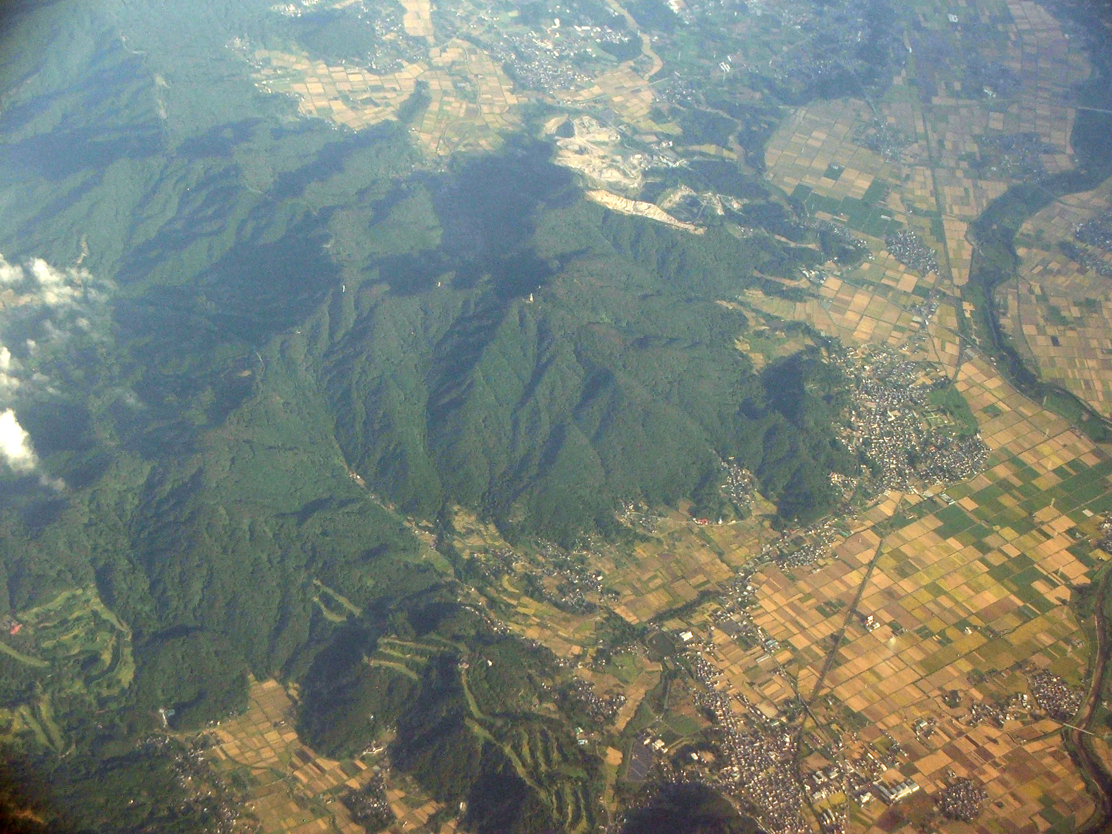 Aerial photo of Tsukuba area, Japan. Village on bottom near right corner is Izumi. Village on right edge above bottom is Kimijima. Top left of middle is Oshito. On top edge in middle is Sawabe. Village near river bend is Ogata. Smaller viallge above this is Shimooshima. Right of this is Tadobe. Above this is Takoka. On top left is Fujisawa. At the mid bottom is Tsukuba Kokusau Country Club. Bottom left is Tsukubane Country Club On right is Sakura River.